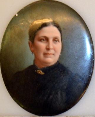 Virginia Sarpy Berthold Peugnet Artist Matthew DeRoche Sitter Virginia Sarpy Berthold Peugnet Date c. 1878 Type Painting Medium Watercolor on ivory Dimensions Sight: 7.4cm x 5.6cm (2 15/16" x 2 3/16"), Accurate Credit Line Current Owner: Missouri Historical Society Website: Object number 1973.76.21 Data Source Catalog of American Portraits See more items in Catalog of American Portraits Place France\Île-de-France\Ville de Paris, Départment de\Paris